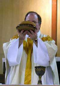 Dr. Gregory S. Neal, UM Elder, presides at the Eucharist.